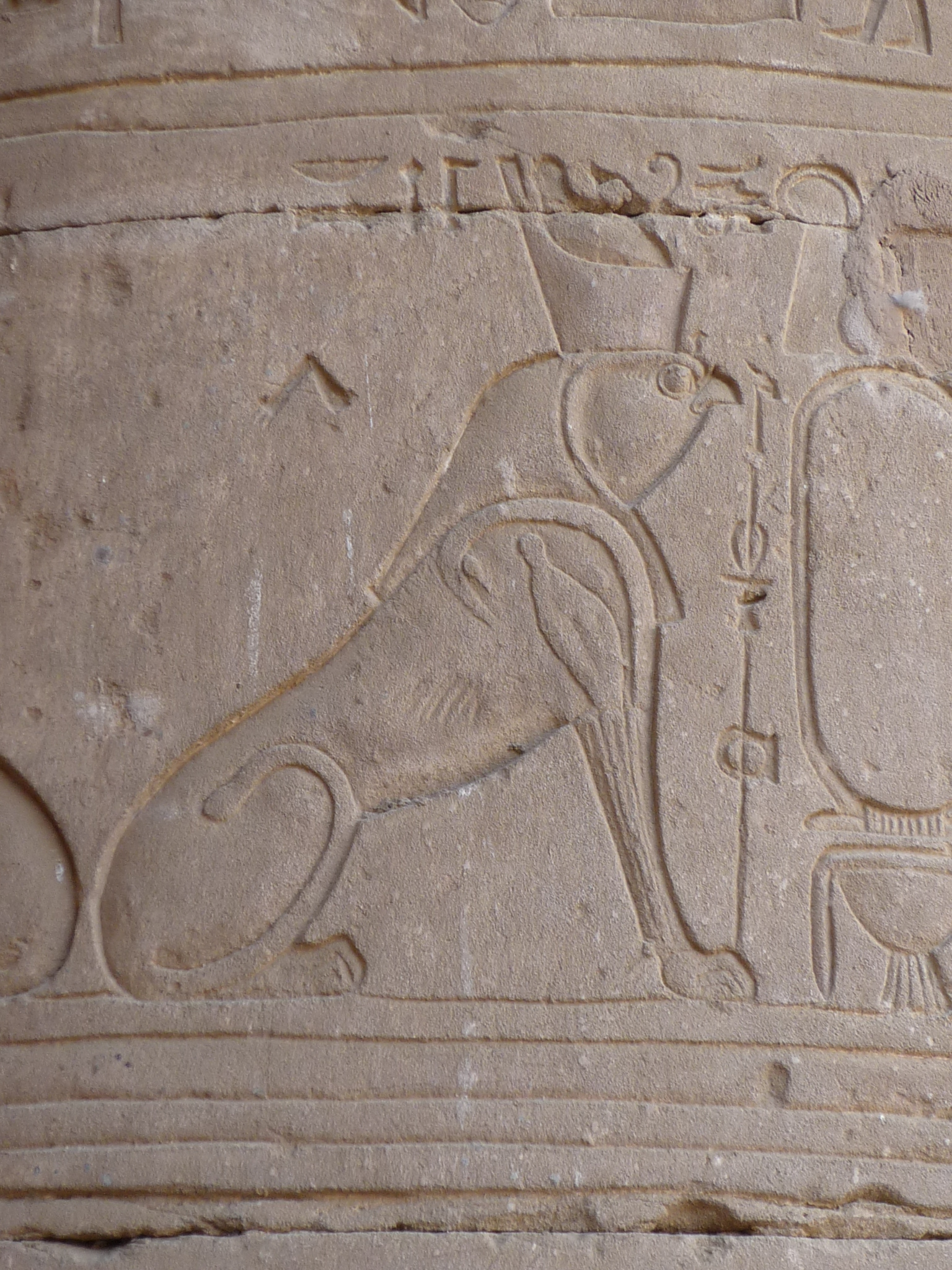 Wall relief of Horus (hieracosphinx), temple of Edfu, Egypt